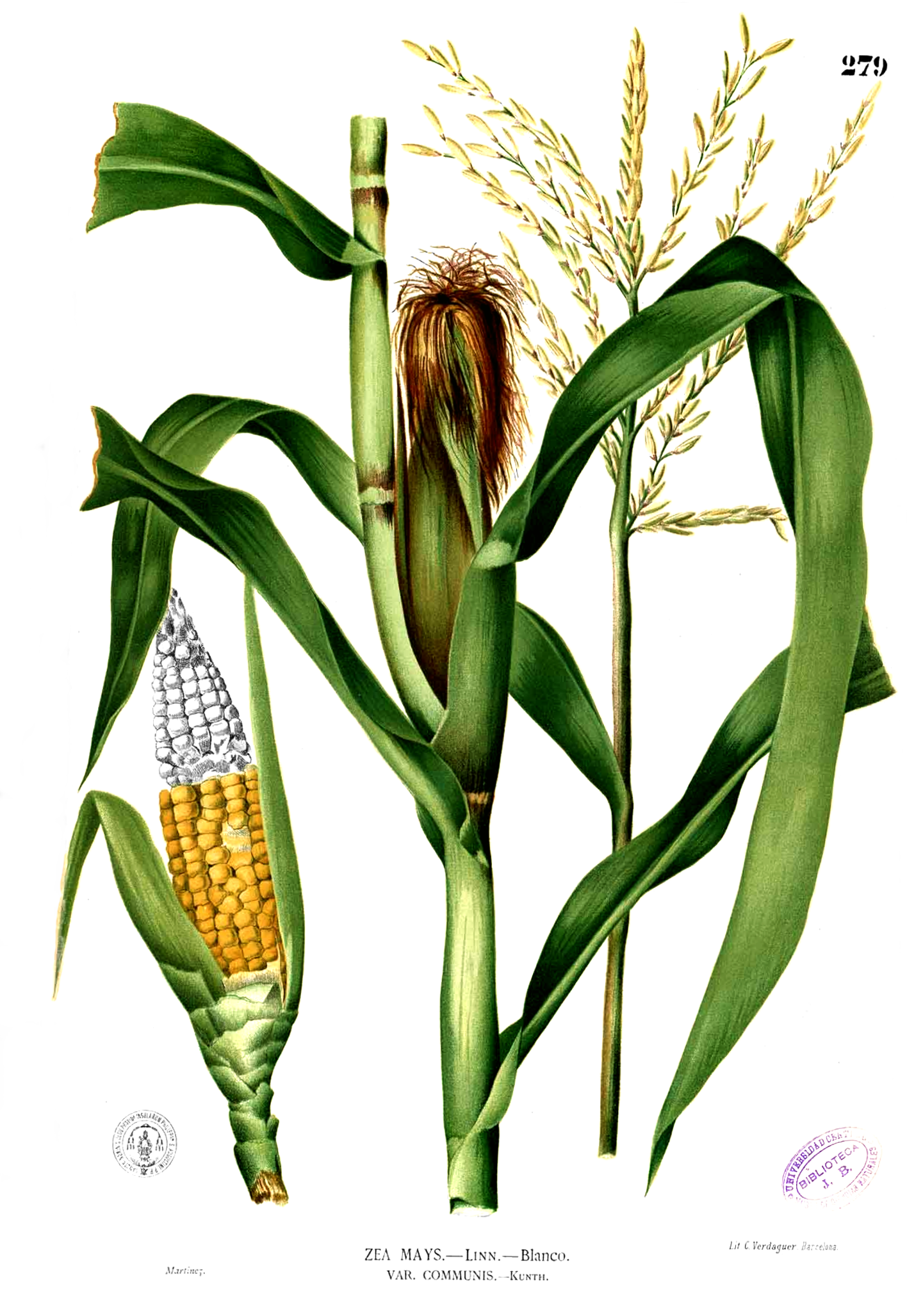 Plate from book